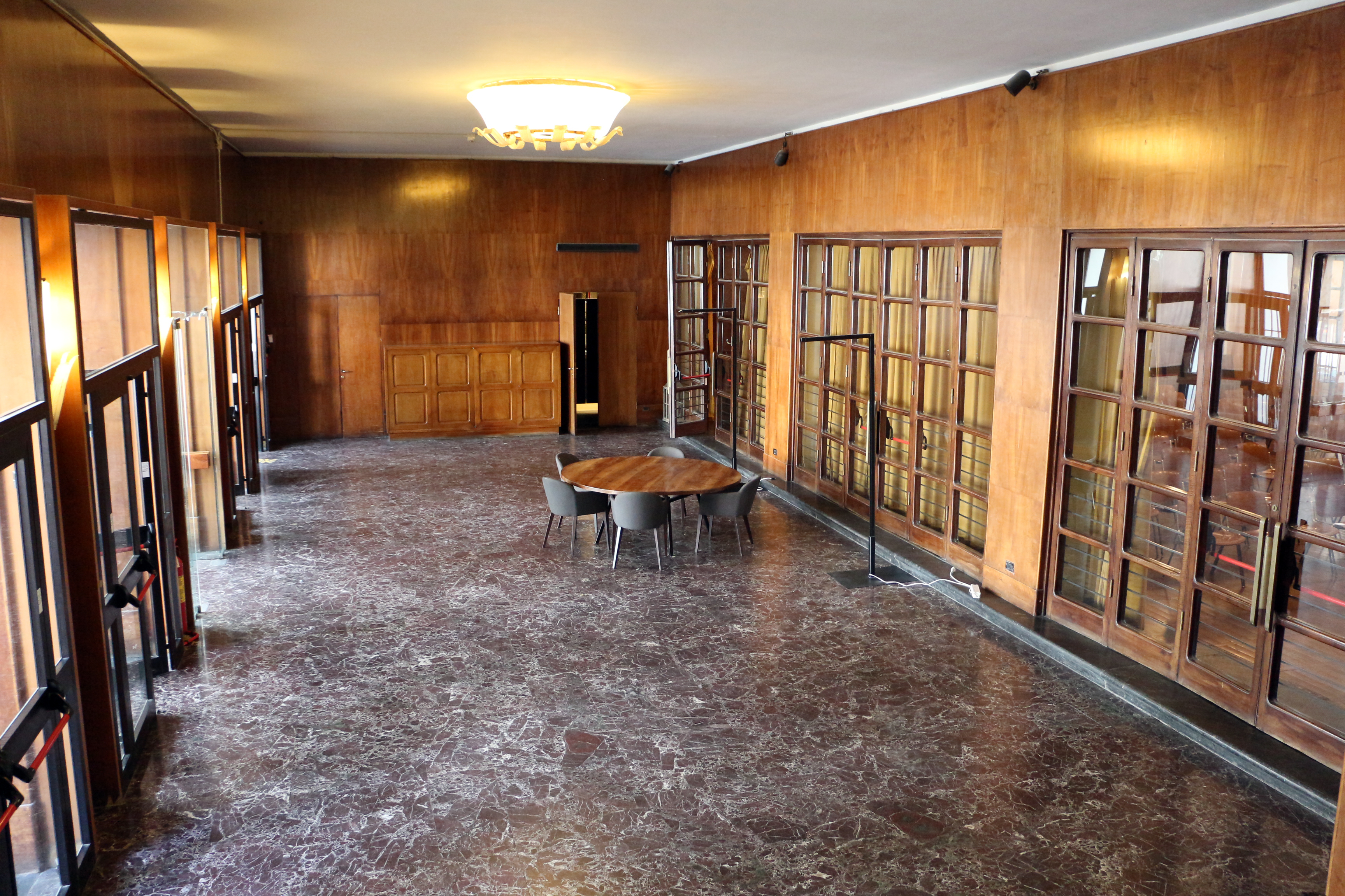 Palazzina Reale di Santa Maria Novella